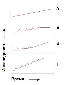 Diagram of clinical variants of Multiple Sclerosis